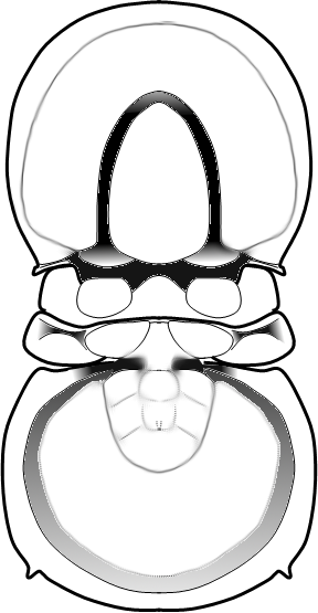 A drawing of Arthrorhachis tarda, order Agnostida, family Metagnostidae, based on photographs in Per Ahlberg (1989). "Agnostid trilobites from the Upper Ordovician of Sweden and Bornholm, Denmark". Bulletin of the Geological Society of Denmark 37:213-226, most notably figure 2c: internal mould of a nearly complete specimen from Bestorp, Mosseberg, Vastergotland. Upper Jonstorp Formation. Coll. excursion 1980. LO 5923t. x7.1.